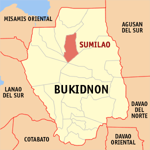 Map of the Bukidnon showing the location of Sumilao